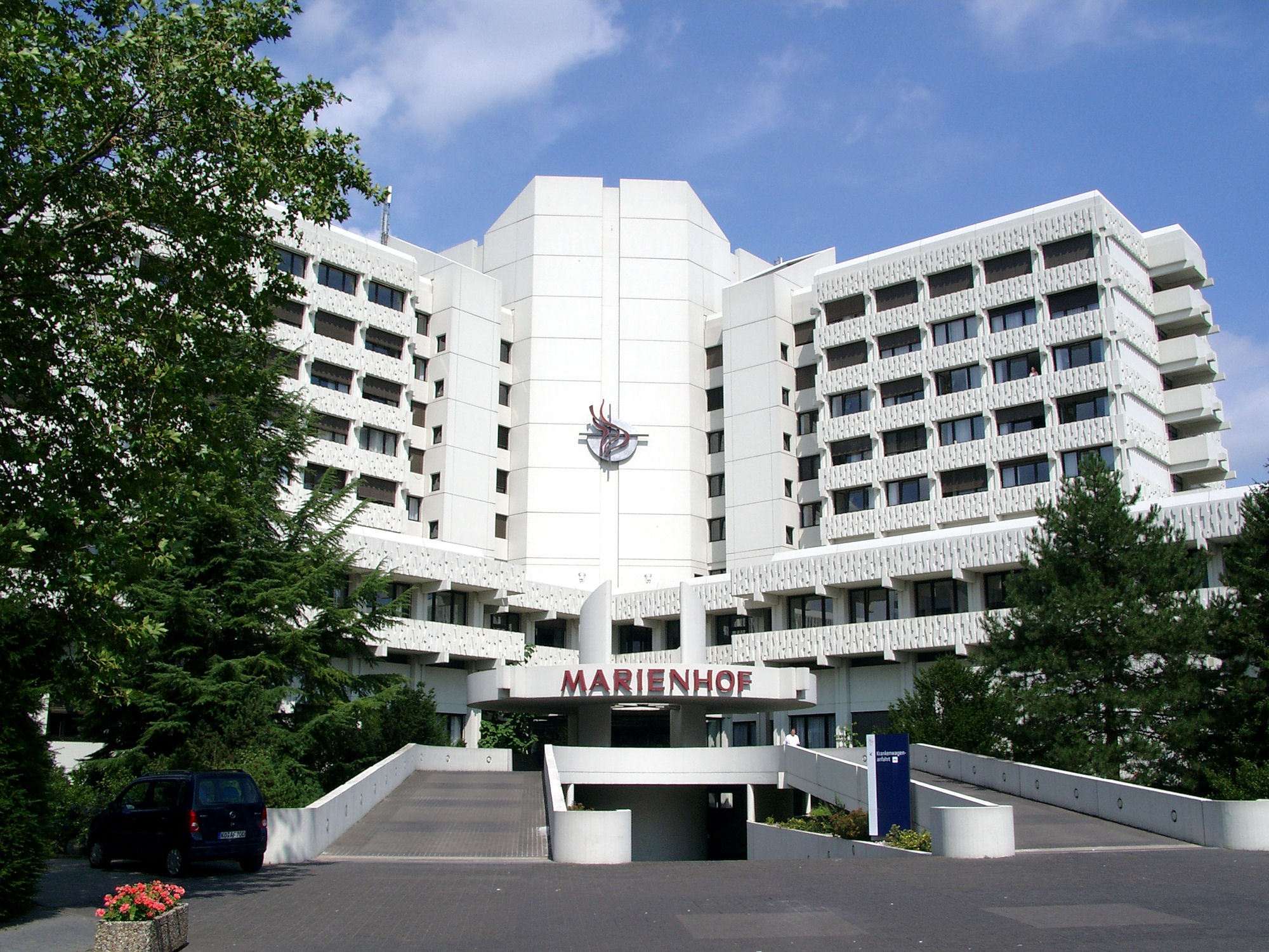 Hospital Marienhof in Koblenz